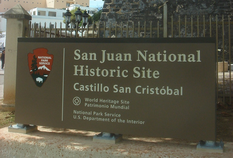 San Juan National Historic Site sign